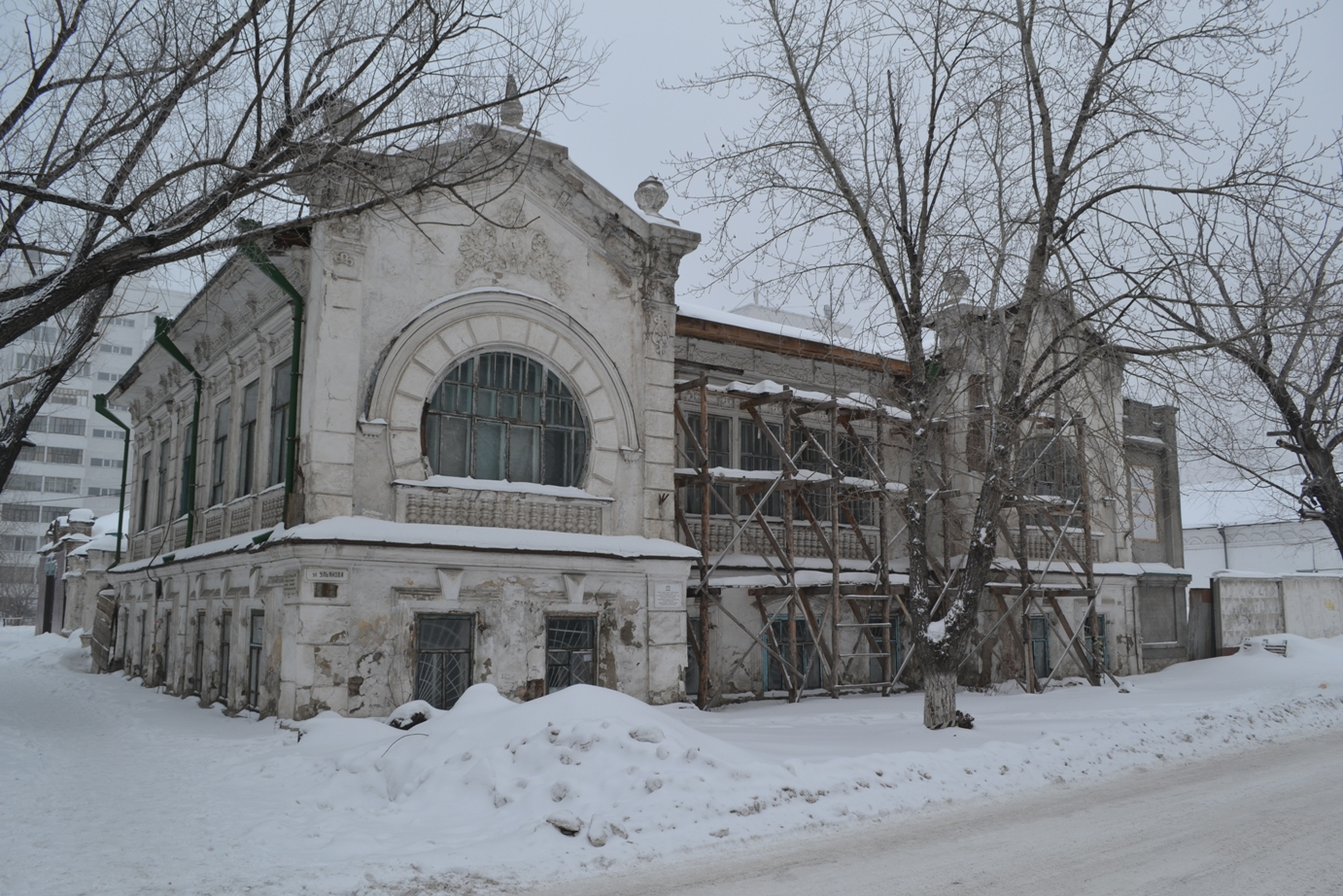 Yangurazov House